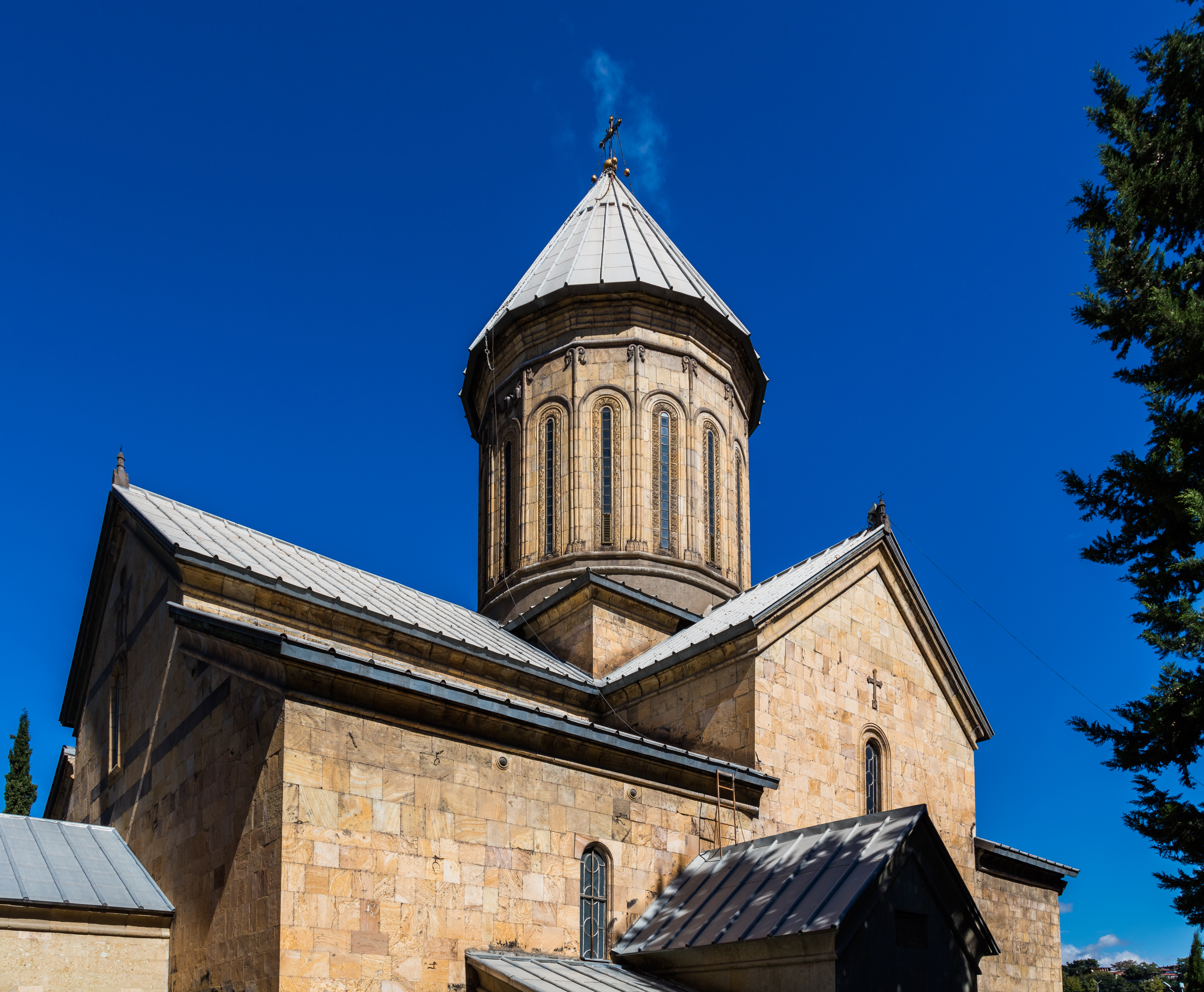 Catedral de Sioni, Tiflis, Georgia